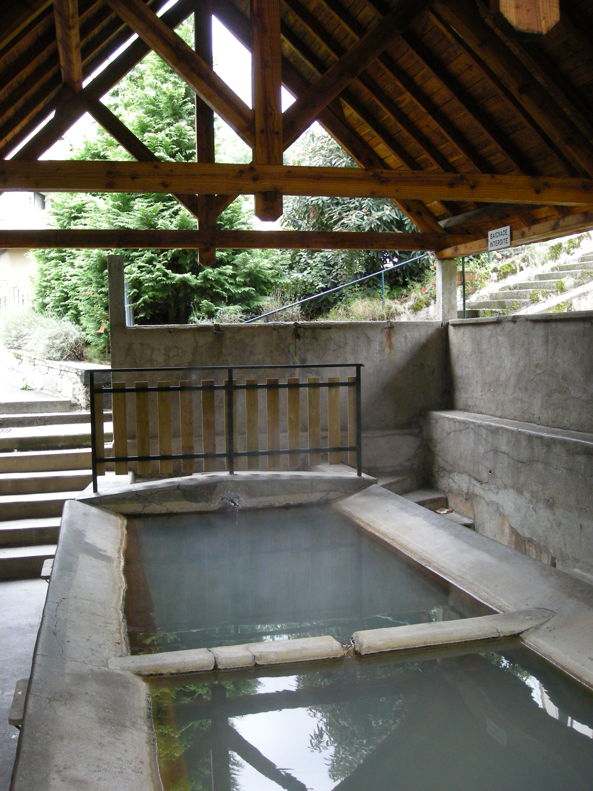 Wash house in Chaudes-Aigues (Cantal)